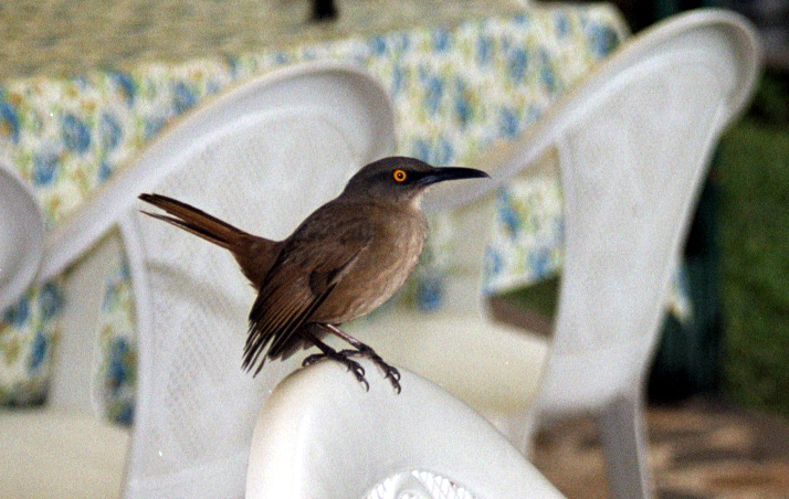 Brown Trembler, Cinclocerthia ruficauda photographed at Dominica 2001